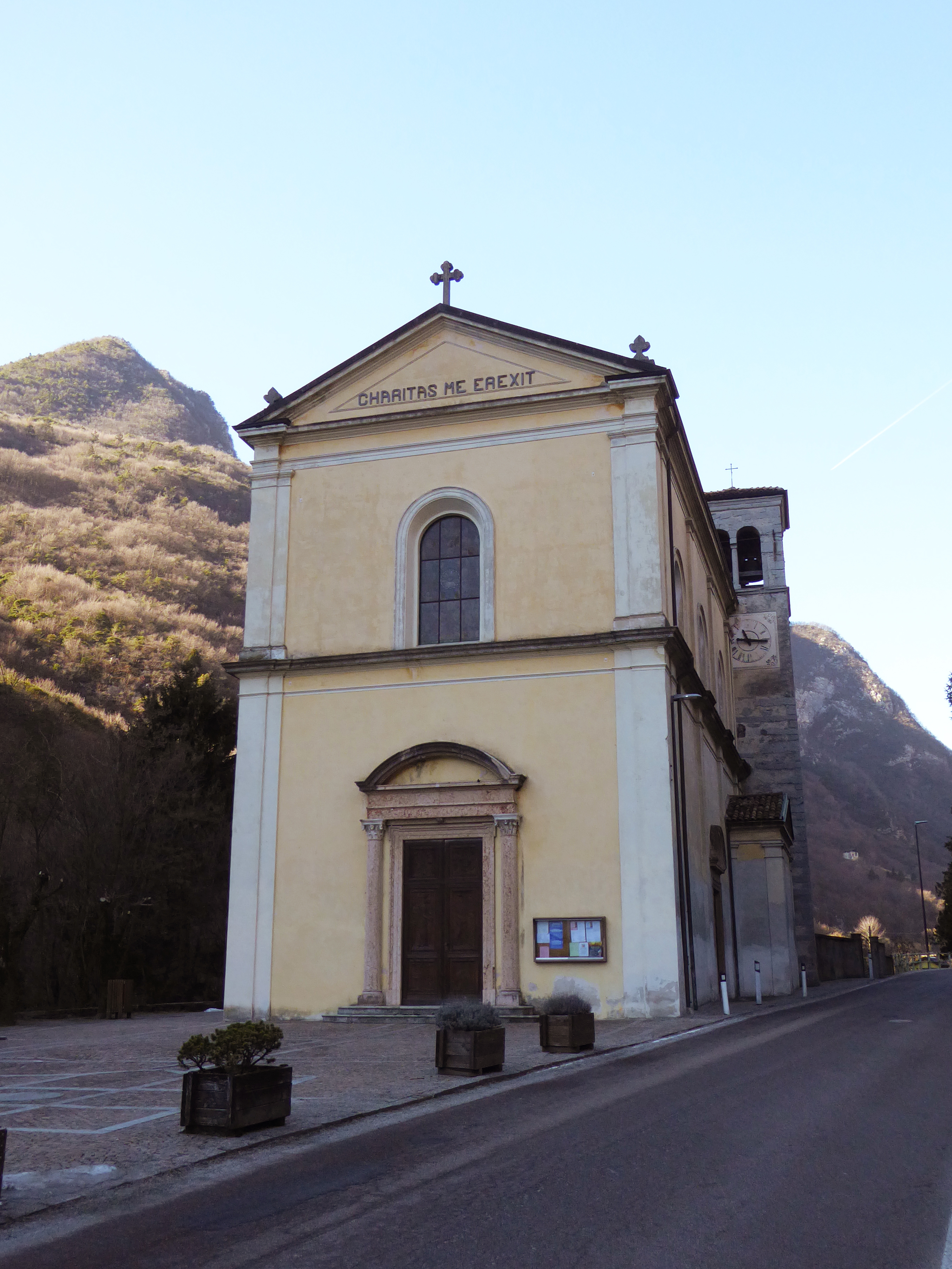 Biacesa (Ledro, Trentino, Italy) - Saint Anthony church